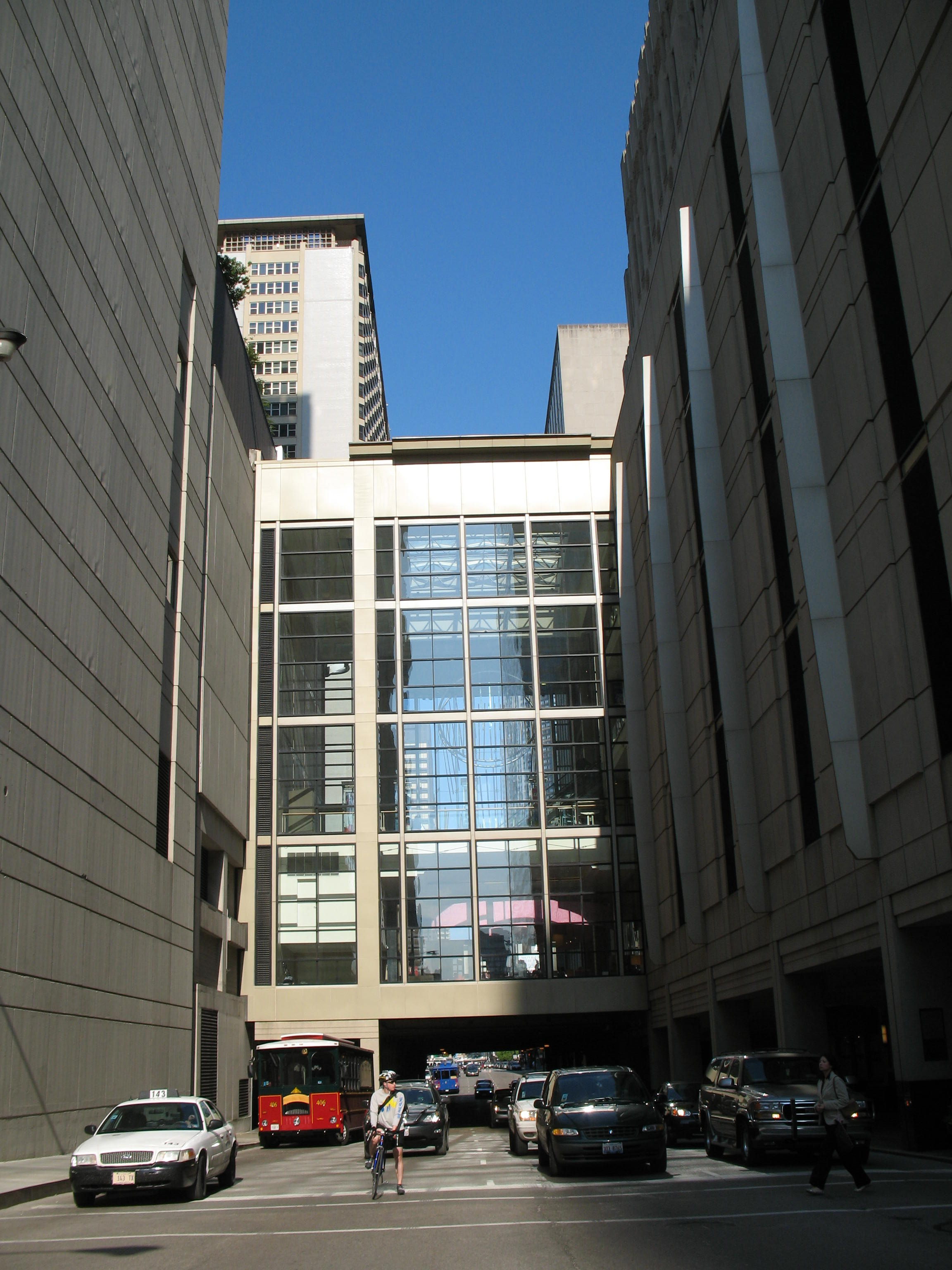 Grand Avenue Magnificent Mile vehicular underpass